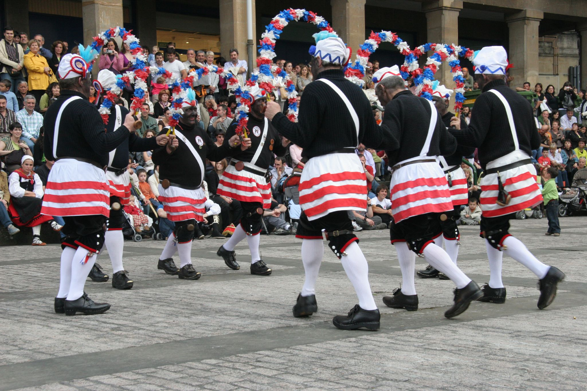 The Britannia Coco-nut Dancers, a folk dance troupe from Bacup in Lancashire, England.